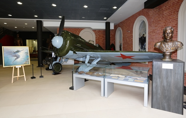 There is an I-16. The pilot of this aircraft is Boris Feoktistovich Safonov.